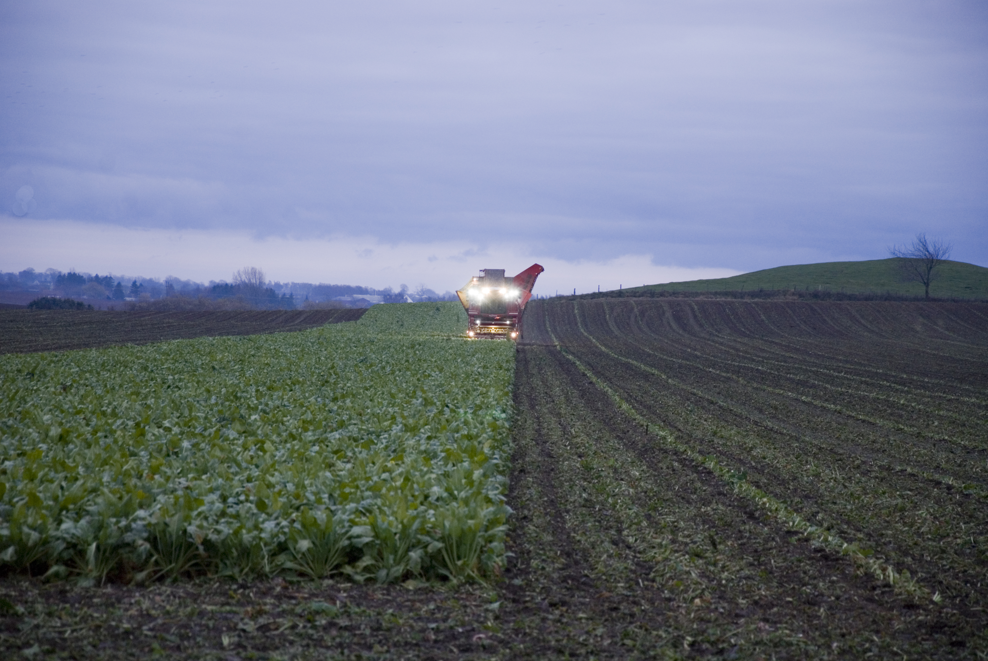 Sugar beet harvester